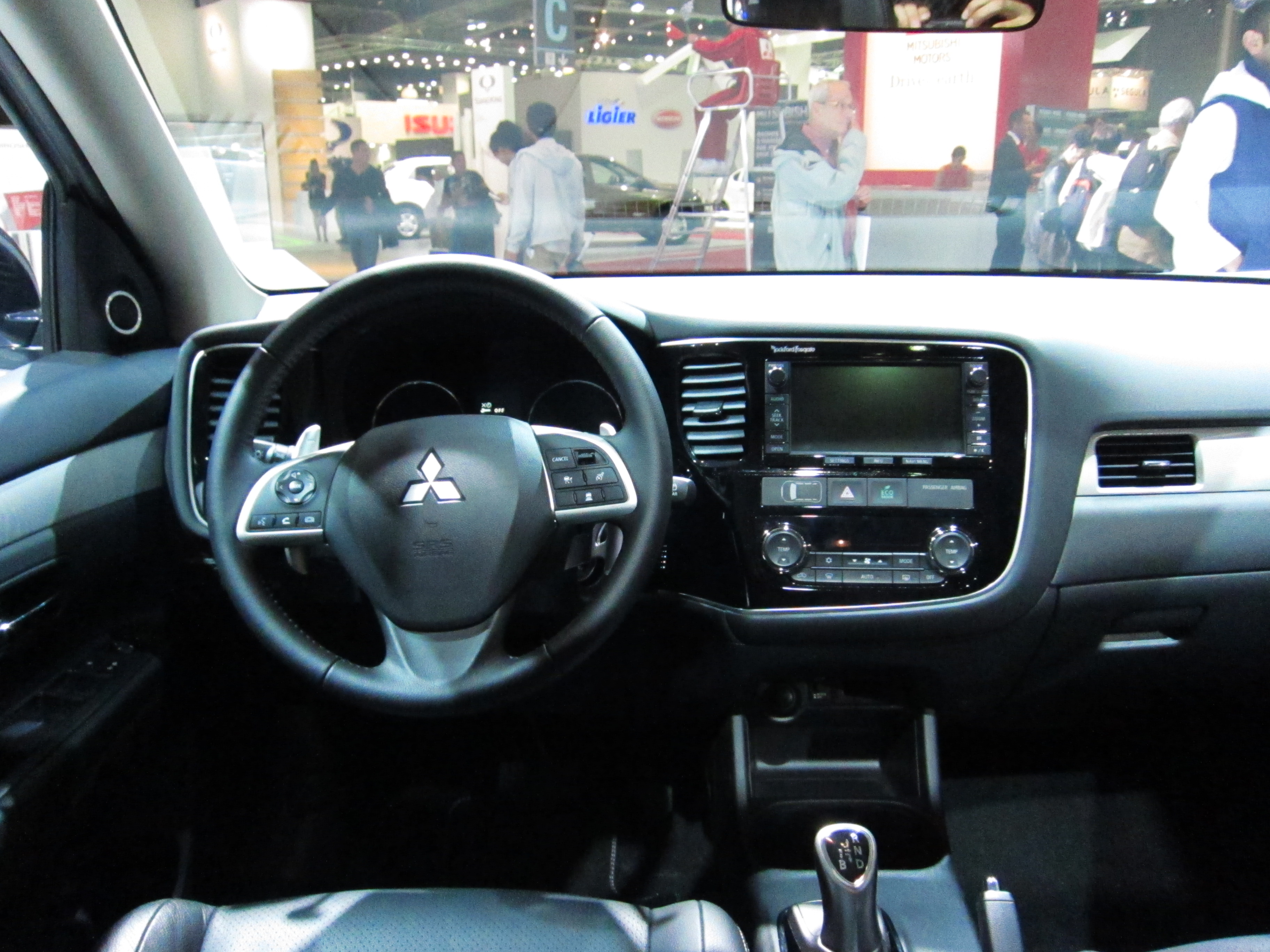 Mitsubishi Outlander PHEV (Plug-in Hybrid) at Mondial de l'Automobile Paris 2012